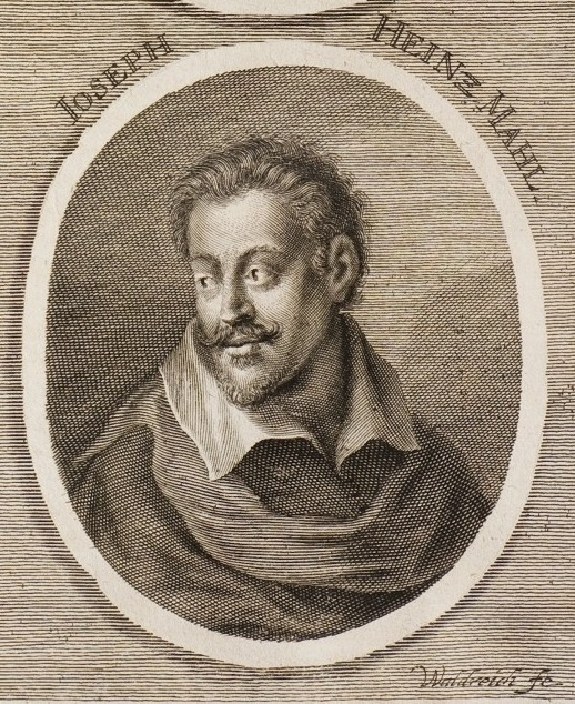 Engraving from the German Academy of the Noble Arts of Architecture, Sculpture and Painting, or Teutsche Academie, a comprehensive dictionary of art by Joachim von Sandrart, published in 1675 and later illustrated with engravings in 1683 Johann Bolonnie, Pieter Brueghel, Bartholomeus Spranger, Joos van Winghe, Hans von Aachen, Joseph Heintz